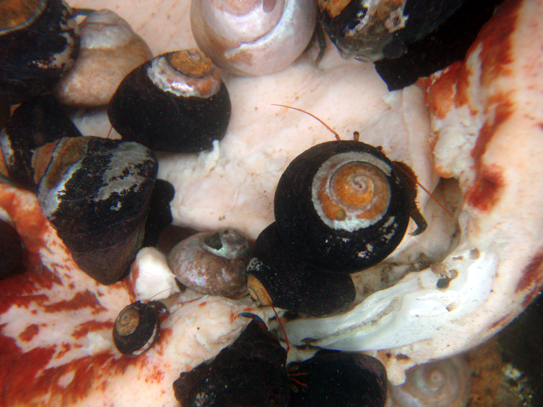 Hermit crabs (Pagurus samuelis, inahibiting shells of the :black turban snail, Chlorostoma funebralis (A. Adams, 1855) (synonym: Tegula funebralis) scavenge on Gumboot chiton, Crytochiton stelleri at tide pools